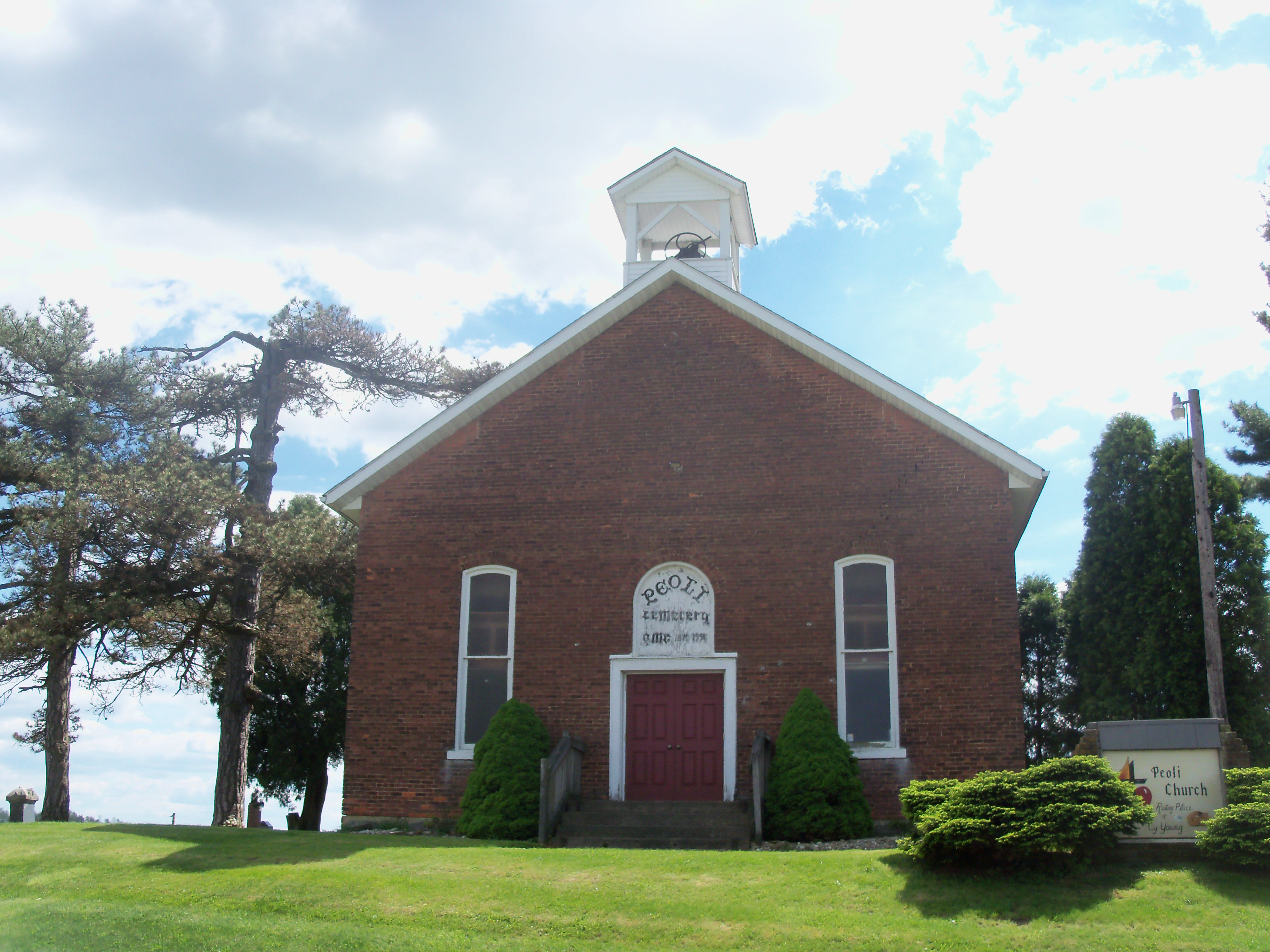 Former Methodist Church (closed 1991) in Peoli, Ohio, next to graveyard that houses Cy Young's tomb